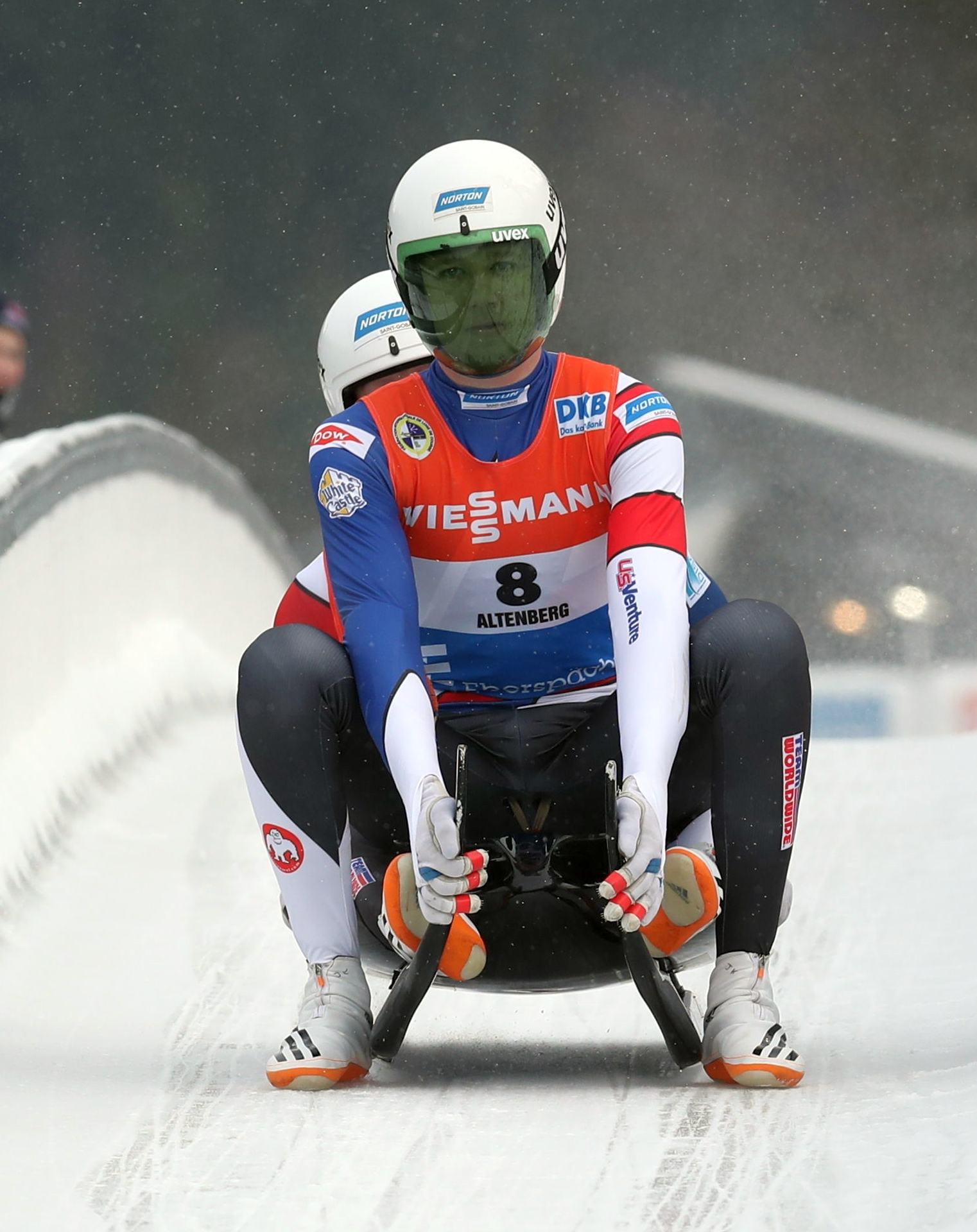 Doubles race at the Altenberg luge world cup 2017/18: Justin Garret Krewson, Andrew Sherk